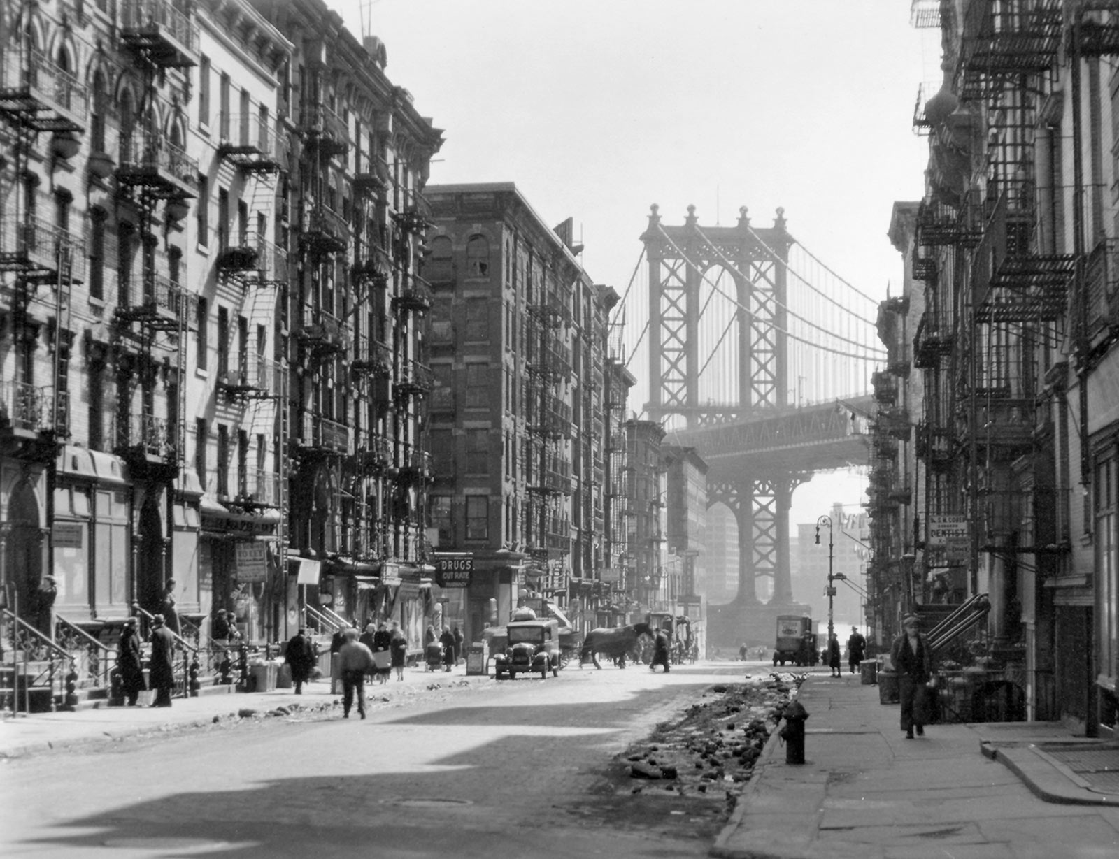 Digital ID: 482679. Abbott, Berenice -- Photographer. March 06, 1936 Notes: Code: I.A.5. Looking down Pike Street toward the Manhattan Bridge, street half in shadow, rubble in gutters, some traffic. Source: Changing New York / Berenice Abbott. (more info) Repository: The New York Public Library. Photography Collection, Miriam and Ira D. Wallach Division of Art, Prints and Photographs.